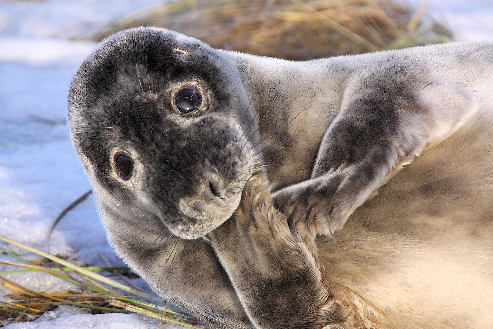 Seal - Donna Nook December 2010